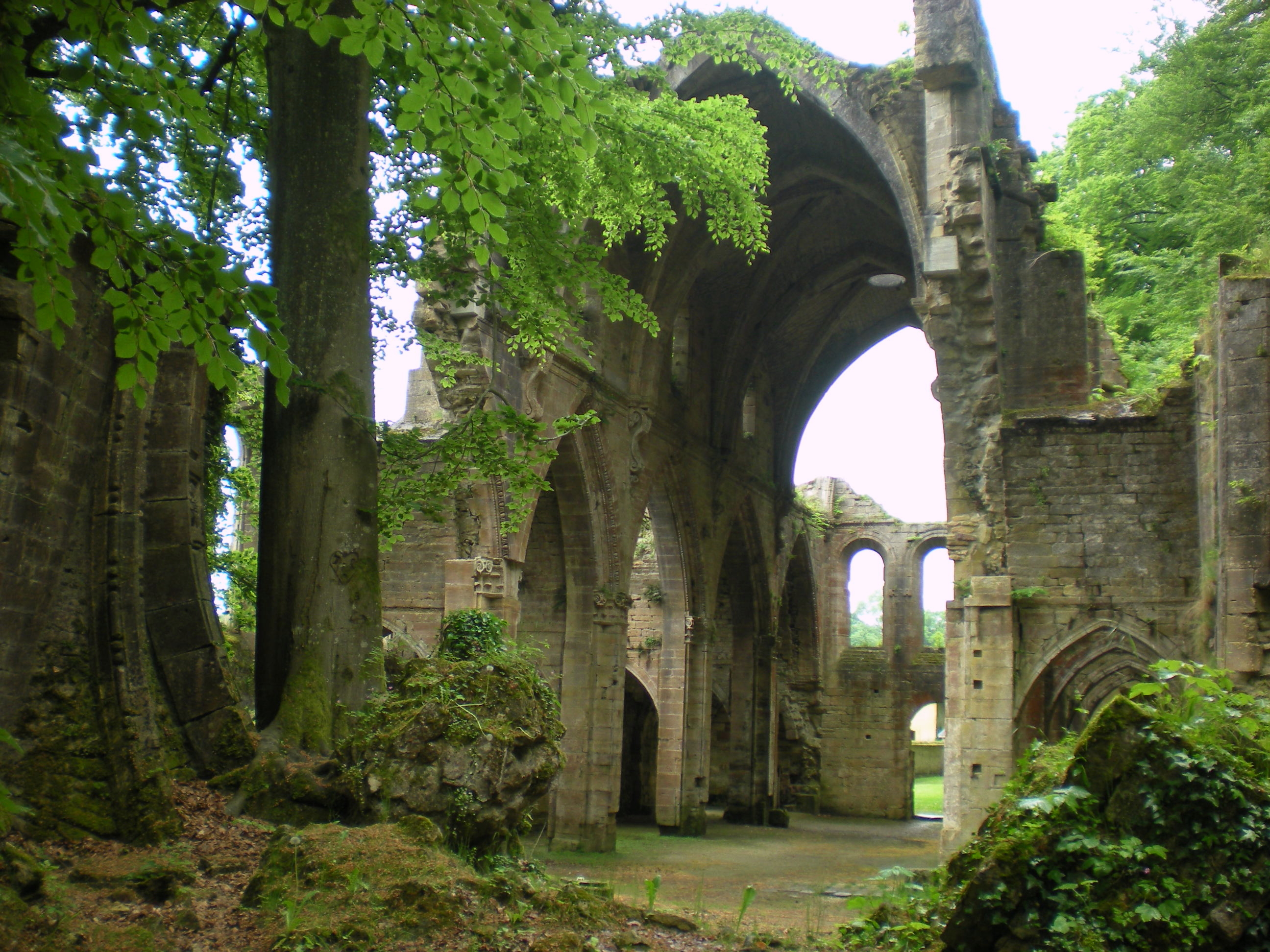 View of Trois-Fontaines abbey church from east-northeast, showing partially intact fallen transverse arch in left foreground; Trois-Fontaines-l'Abbaye, Marne, France.